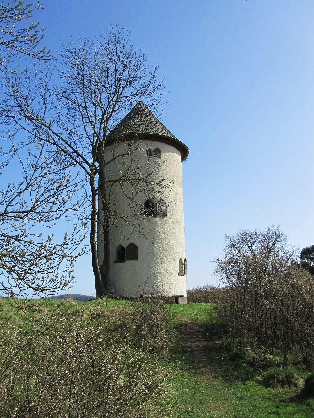 Germany / Hesse / Naumburg: romantic tower "Elberberger Türmchen"